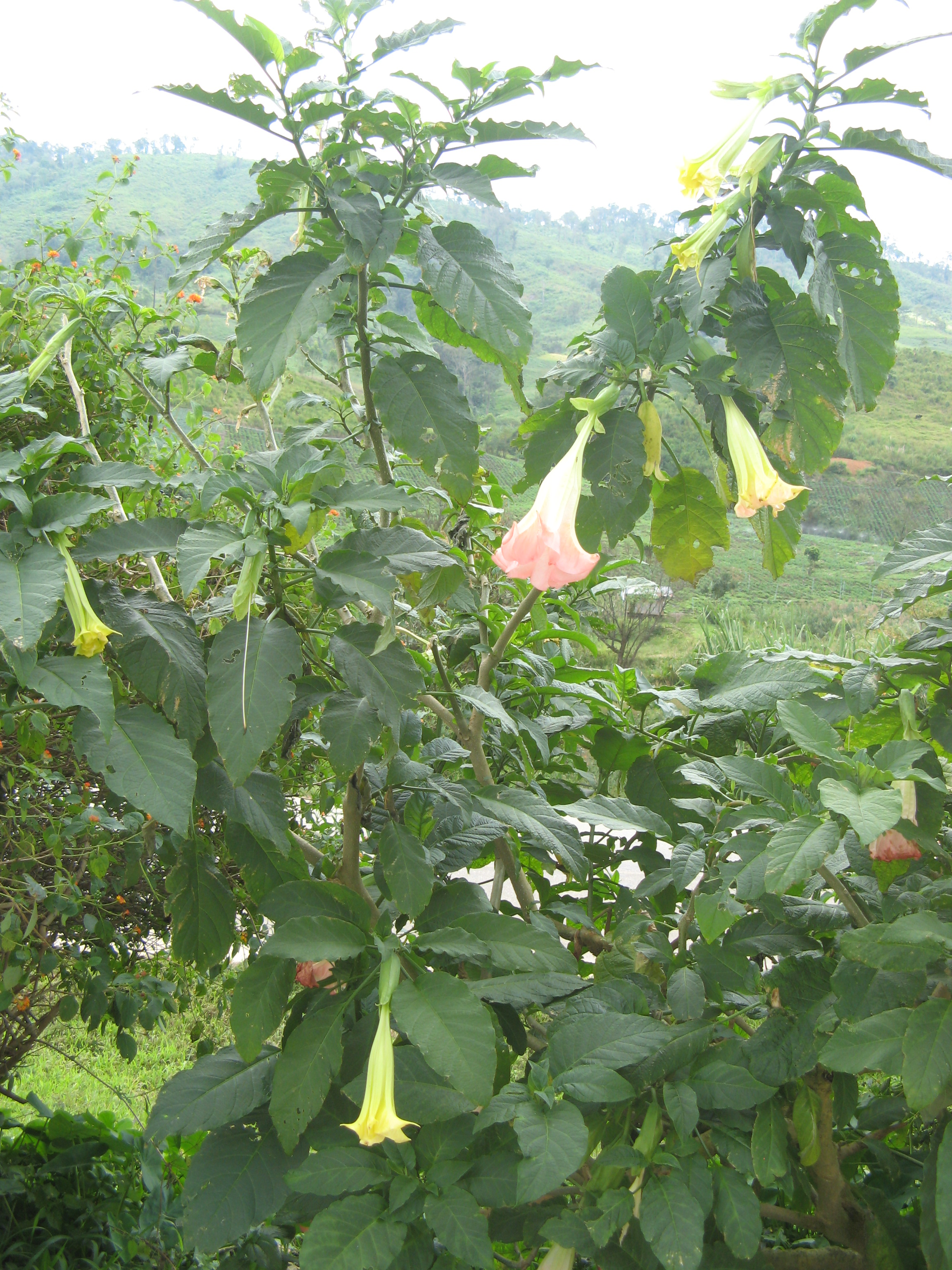 Brugmansia suaveolens